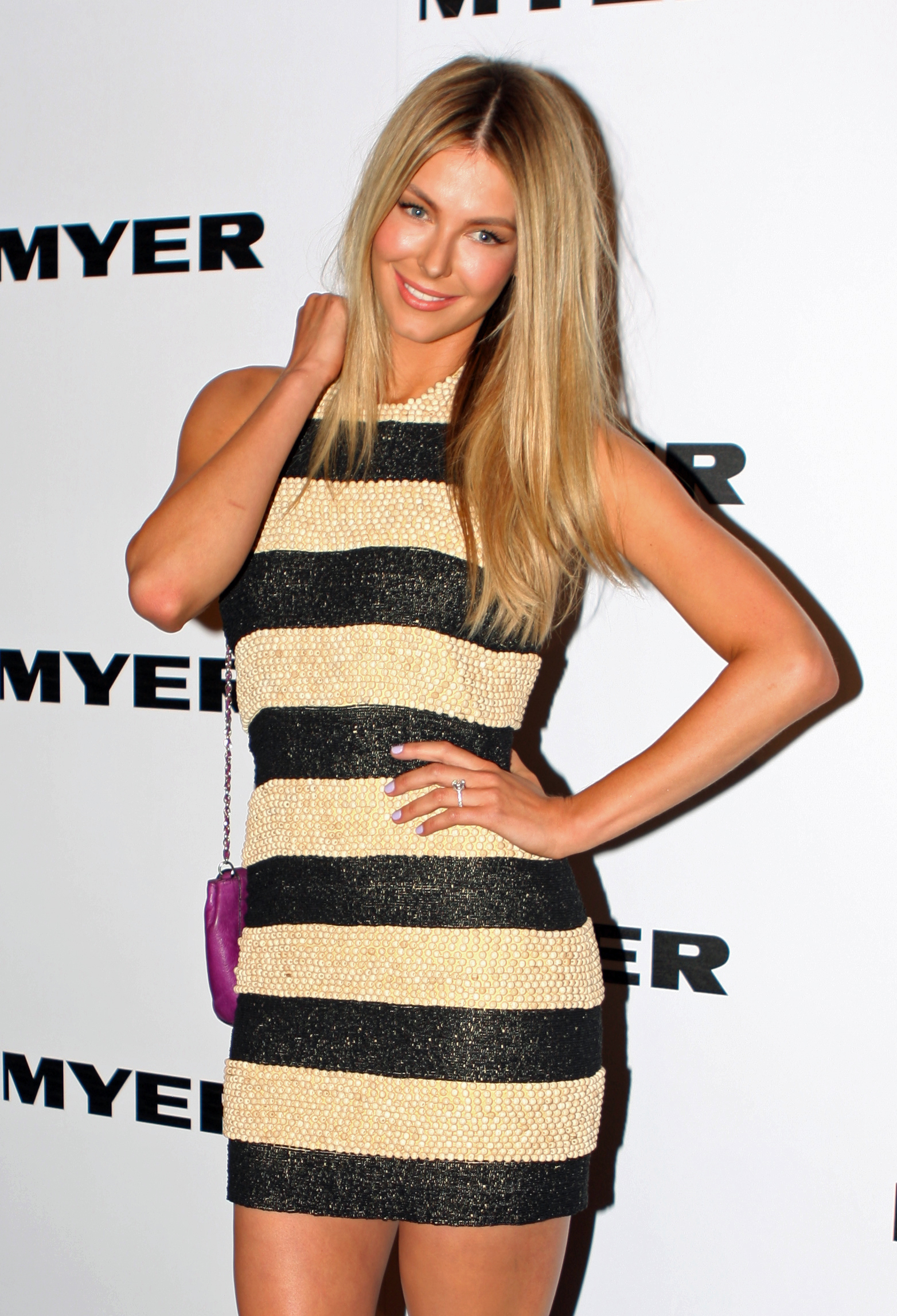 Jennifer Hawkins at the Myer Spring Summer Fashion Launch in August 2011.